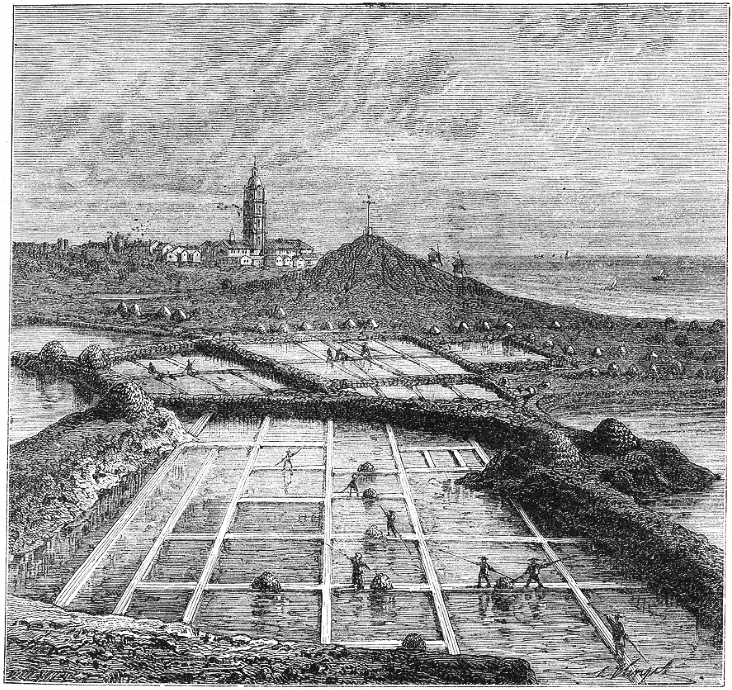 Engraving depicting the sluices and salt pans at salt works near Le Croisic, on the coast of Brittany, France